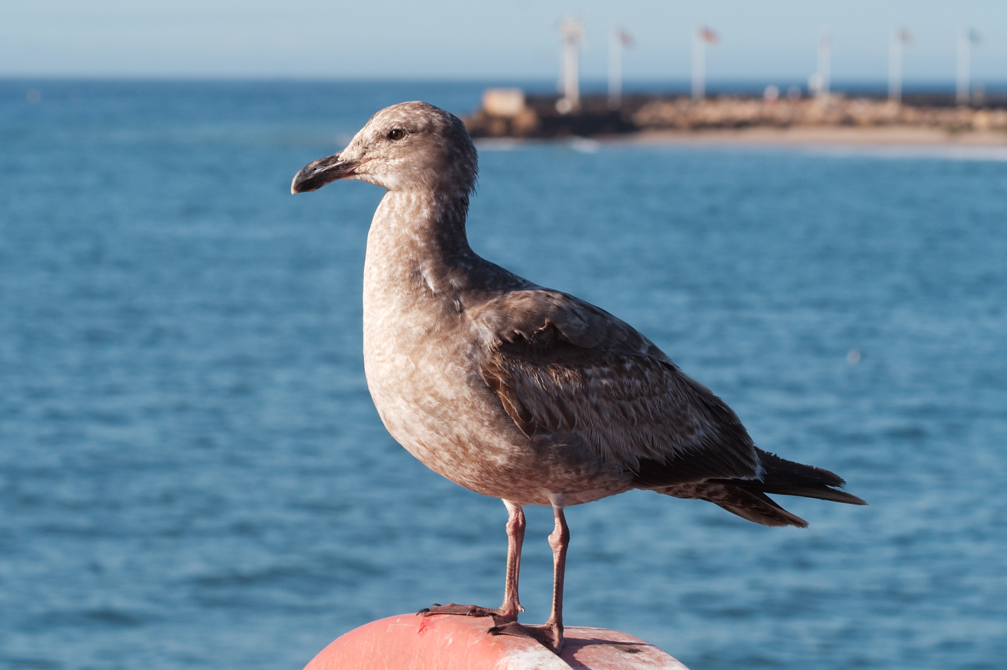 A western gull (Larus occidentalis), taken in Santa Barbara, California